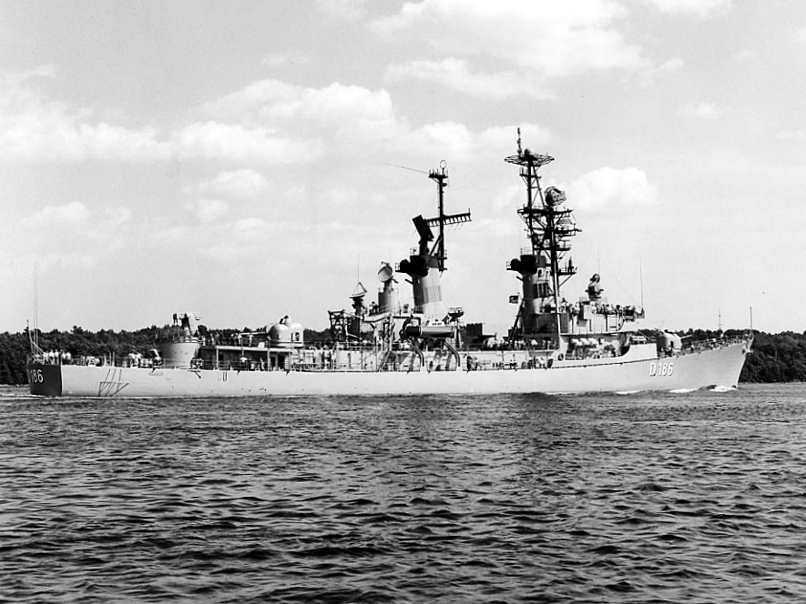 The West German Navy guided missile destroyer Mölders (D 186) underway off Bath, Maine (USA), on sea trials in 1969. While under construction, this ship was assigned the U.S. Navy hull number "DDG-29". Mölders was commissioned on 20 September 1969.